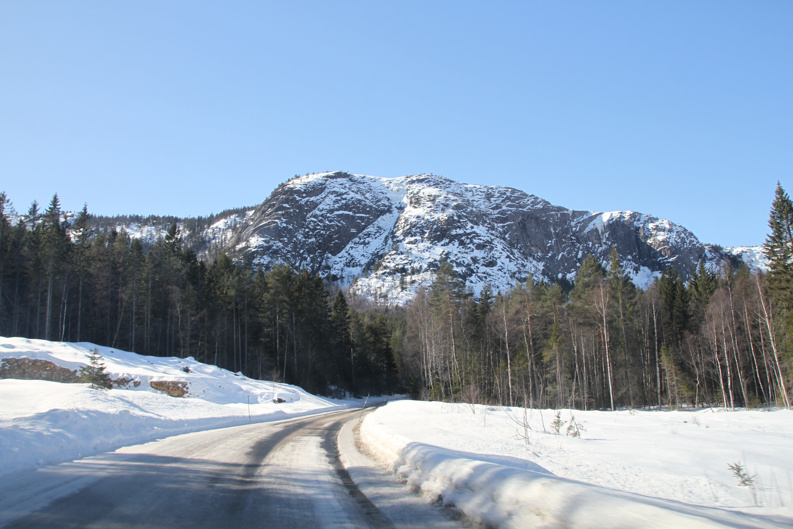 Image from the southwestern shore of the Nisser lake (Gaurak area), in municipality of Nissedal - southern Telemark county - Norway